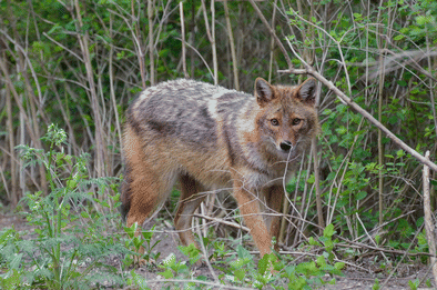 Golden jackal photo made in May 2015 in Biebrza river valley in north-eastern Poland. Photo by Adam Doliwka